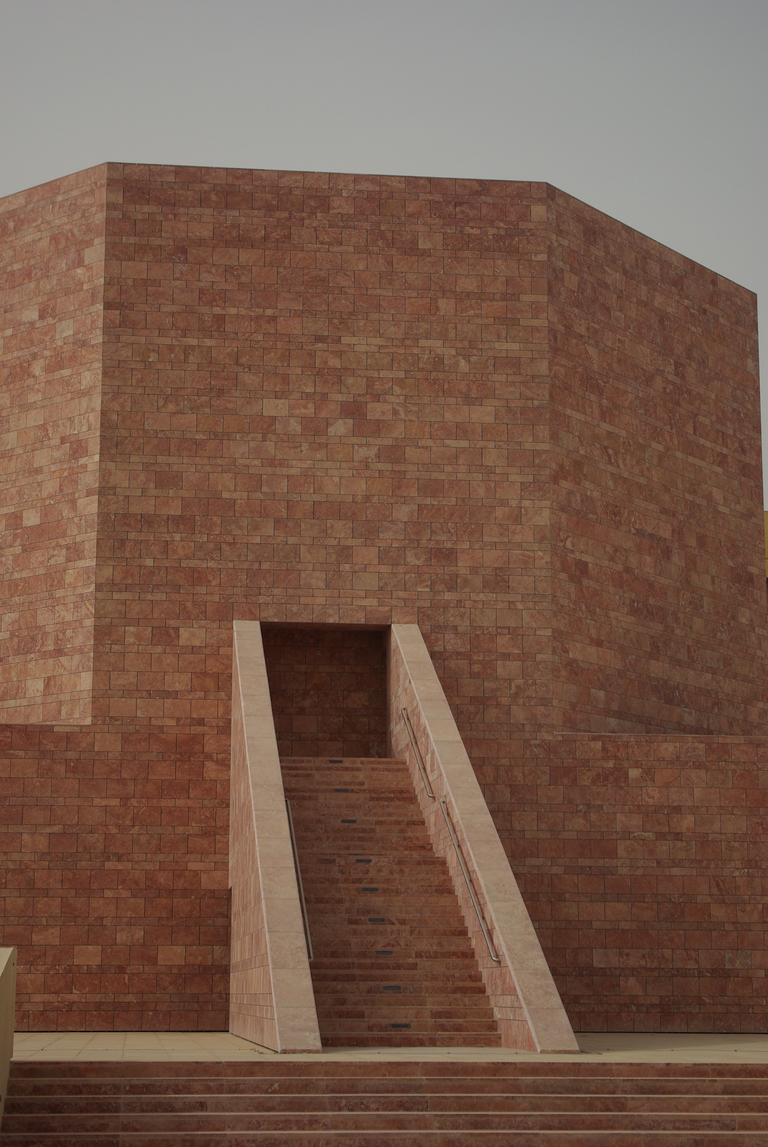 Unidentified building at Education City in Doha.